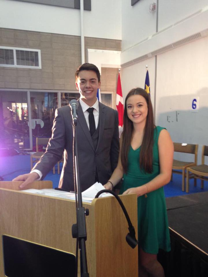 Janique LeBlanc with best friend Oliver Dinan at the closing ceremony of the 2015 Acadian Games in Halifax, NS.